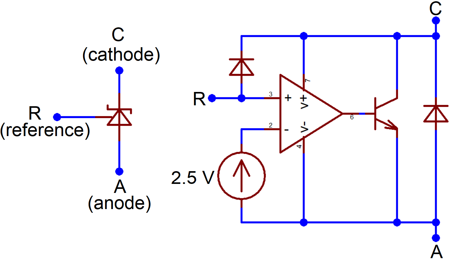 Equivalent (abstraction level) schematic of the TL431. Note that actual, transistor-level schematic does not contain neither a 2.5V source (it's actually a 1.2V bandgap), nor a traditional balanced-input opamp (it's a current bridge differential circuit).